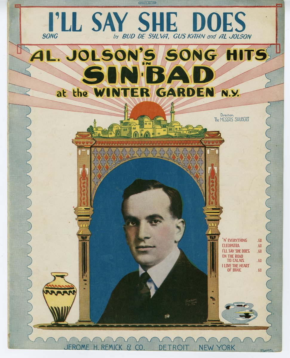 "I'll Say She Does" sheet music cover with photo of Al Jolson